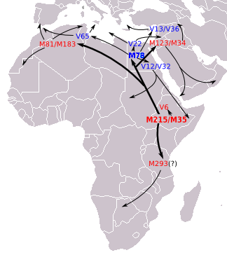 Made by User:Andrew Lancaster, using and the software Inkscape. The aim was to use for the E1b1b article. It shows the standard theory about migration routes for that Y chromosome haplogroup.